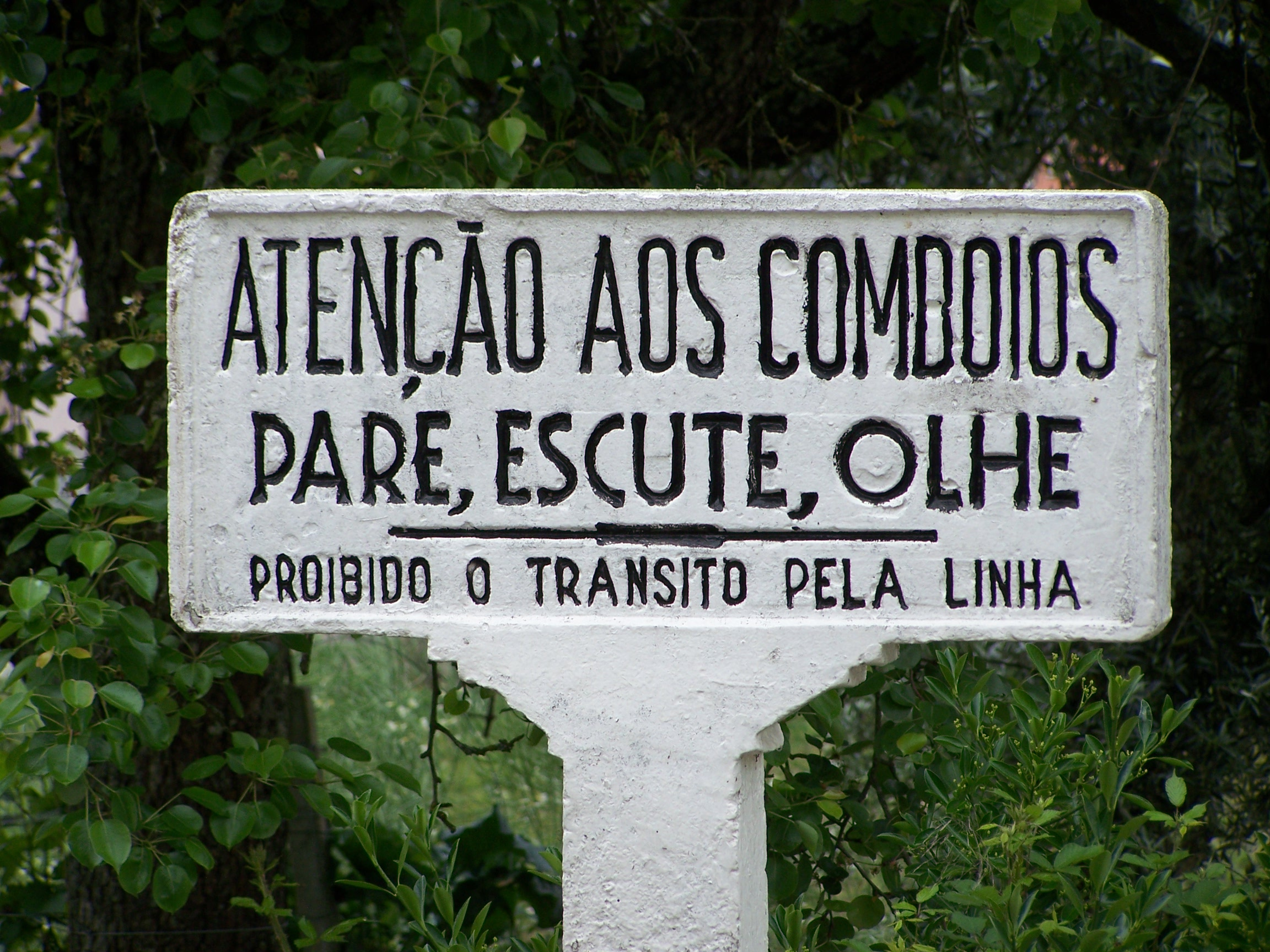 A typical sign of the portuguese railway with the sentence "Pare, escute, olhe" (Stop, listen, look)